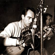 Howard Roberts Guitarist Musician Wrecking Crew Member